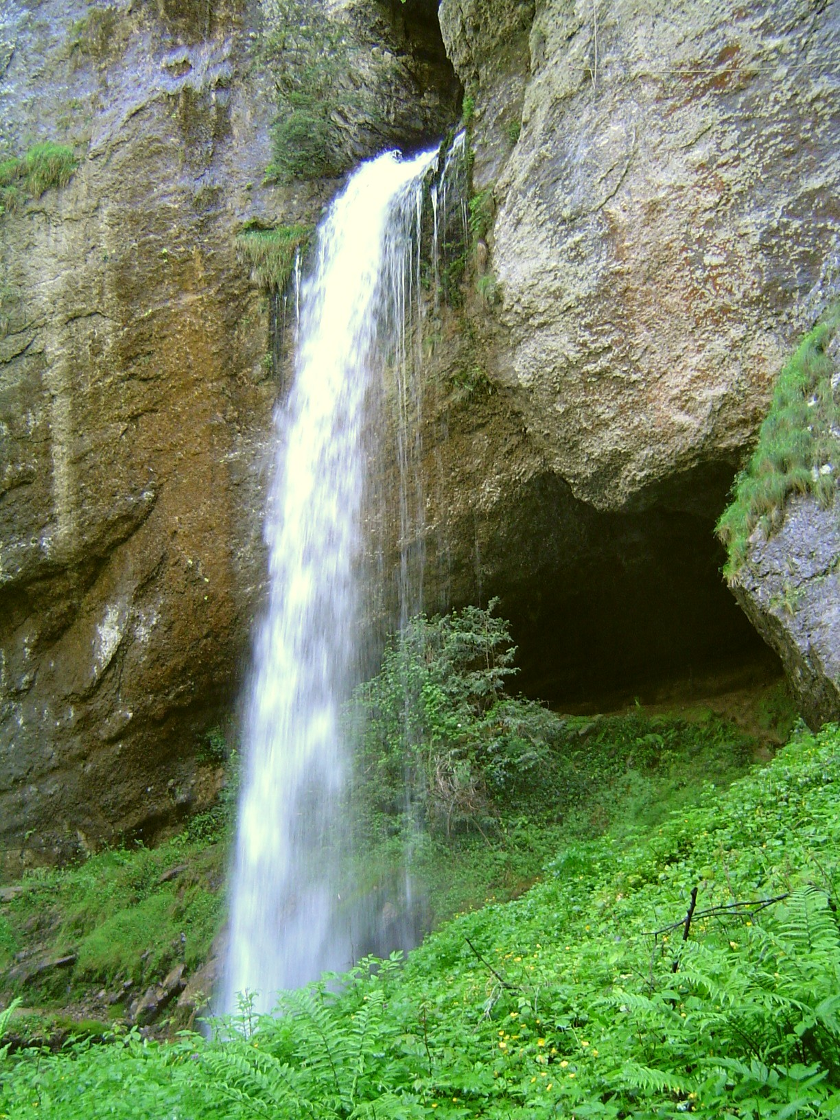 Kakouetta gorges, Sainte-Engrâce, Haute Soule, Northern Basque Country, France.